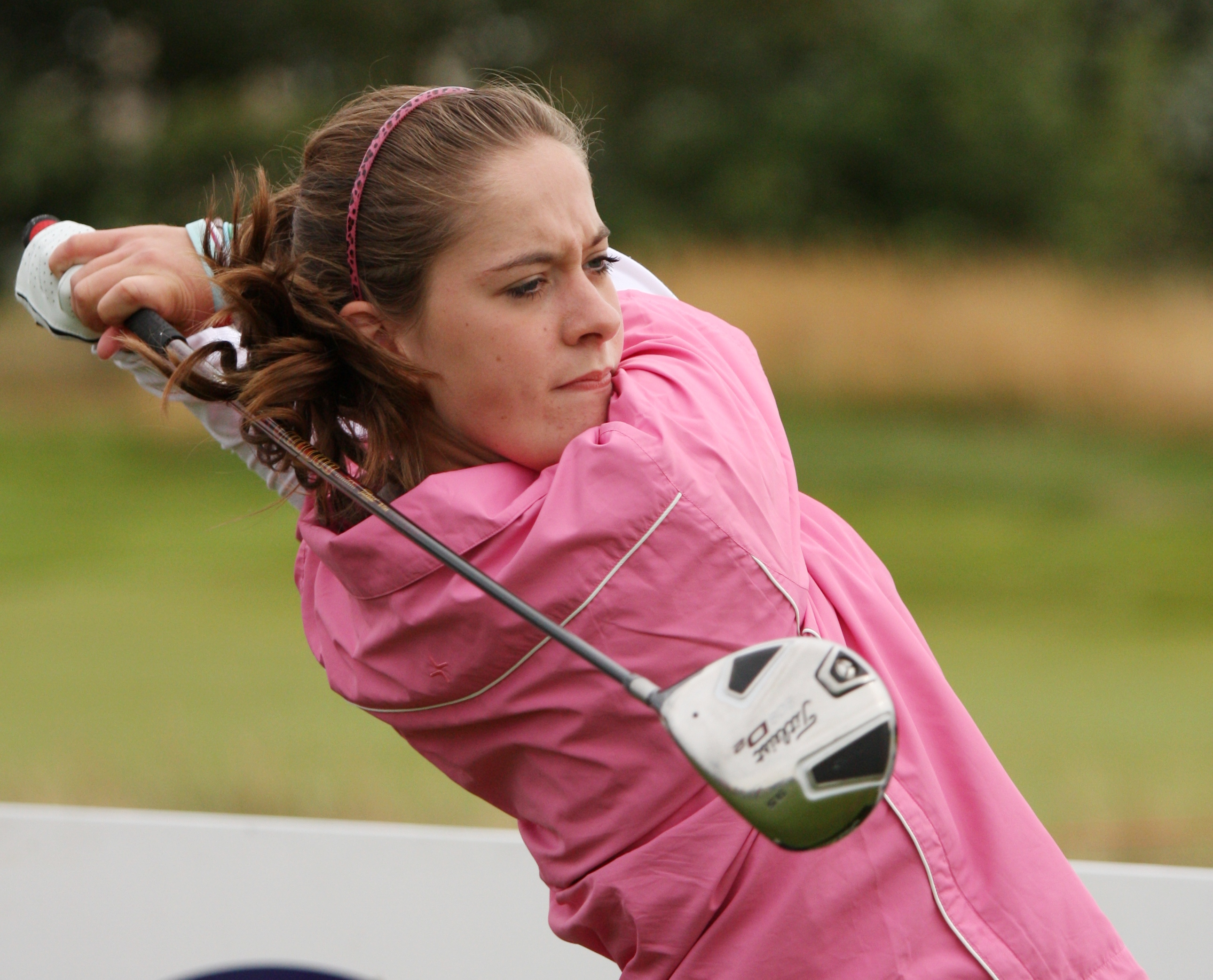 LYTHAM ST ANNES, UNITED KINGDOM - JULY 29: Lauren Taylor of England watches her drive at the 18th tee during third practice round before 2009 Ricoh Women's British Open held at Royal Lytham & St Annes on July 29, 2009 in Lytham St Annes, England. (Photo by Wojciech Migda)